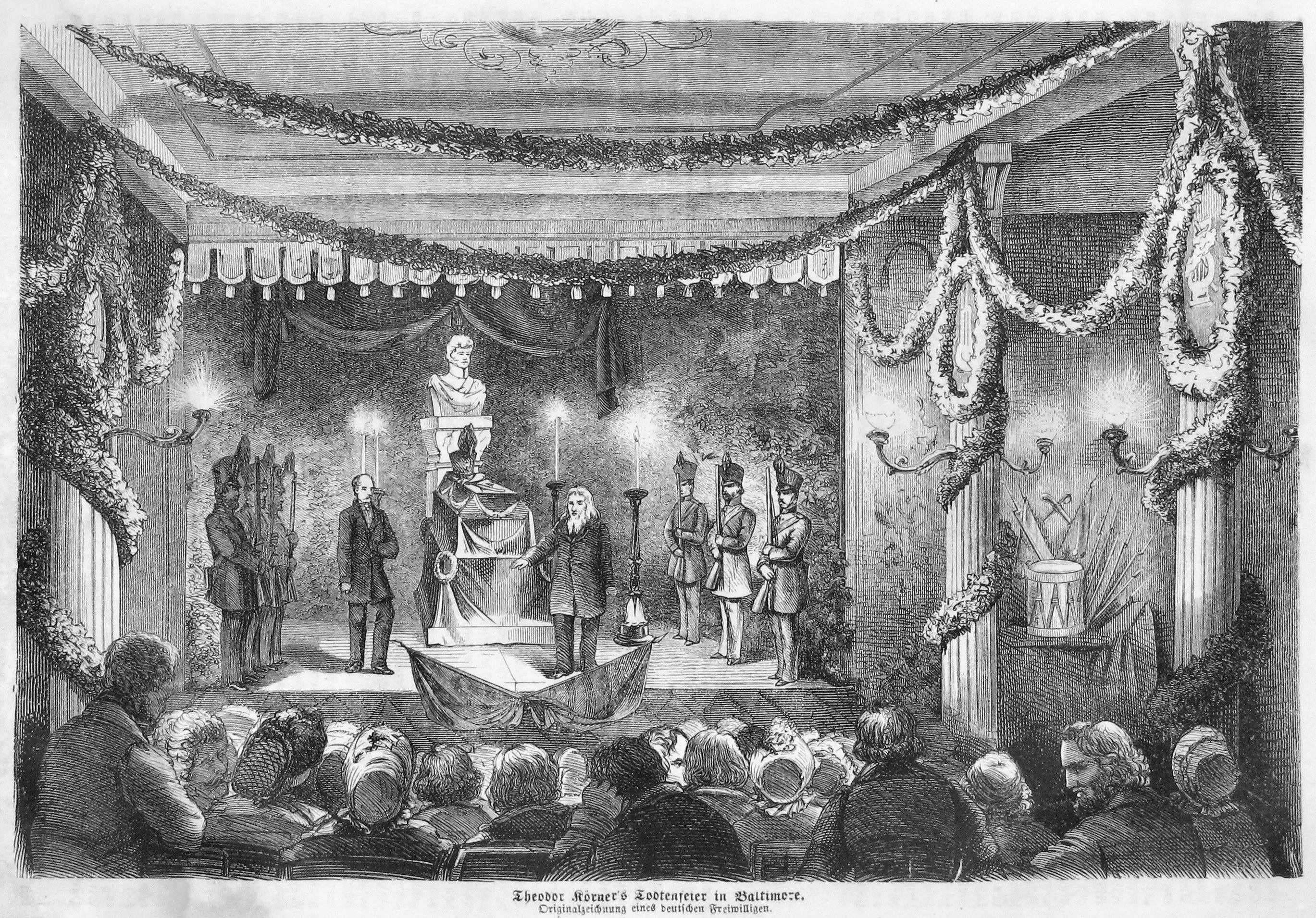 caption: "Theodor Körner’s Todtenfeier in Baltimore. Originalzeichnung eines deutschen Freiwilligen."